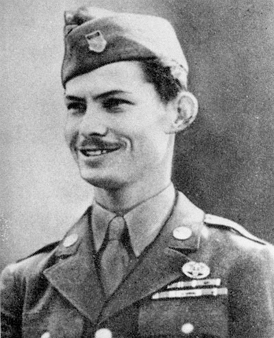 Desmond T. Doss (1919-2006), Medal of Honor recipient for his actions as an U.S. Army medic during World War II.